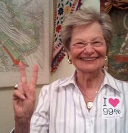 Lila Garrett, Screenwriter, Radio Host & Peace Activist